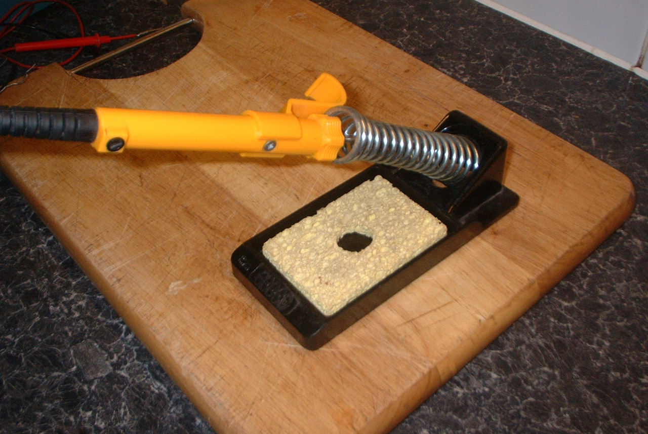 Soldering iron holder (used to support soldering iron when not in use)